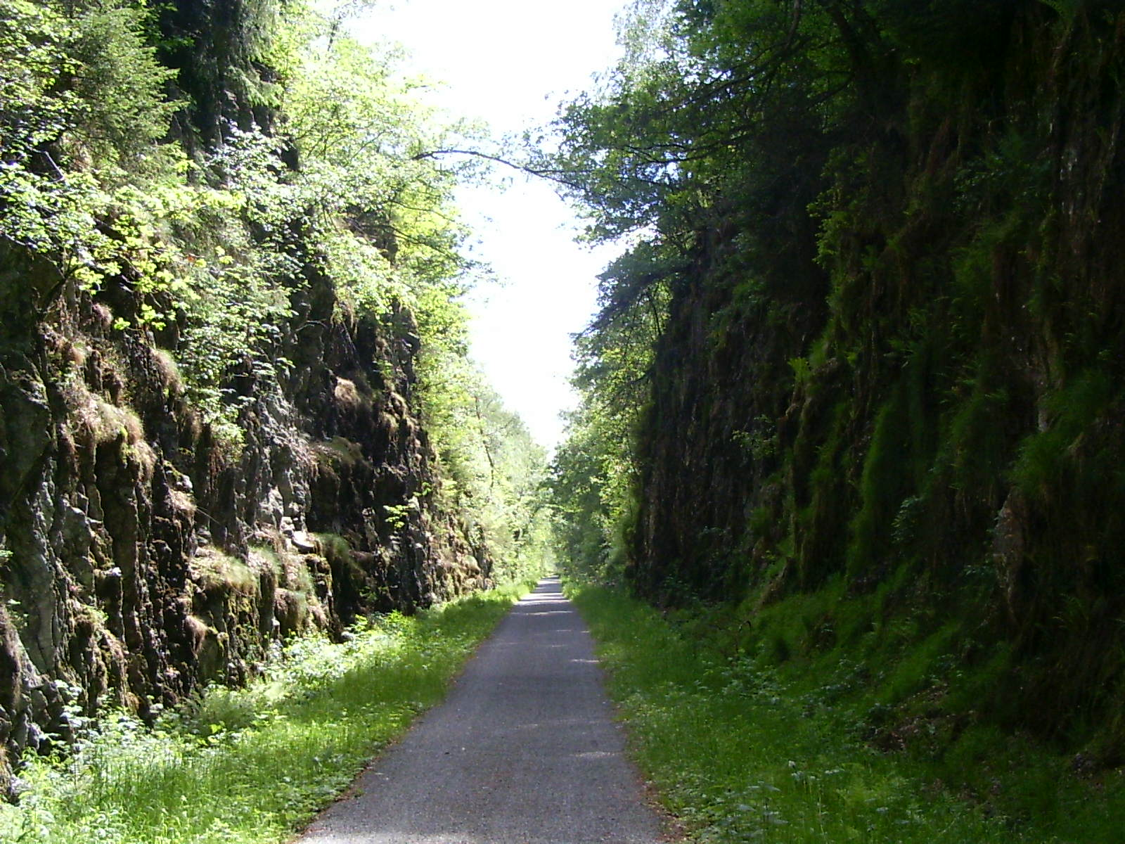 Bikeway Spa - Stavelot in between rocks near Francorchamps